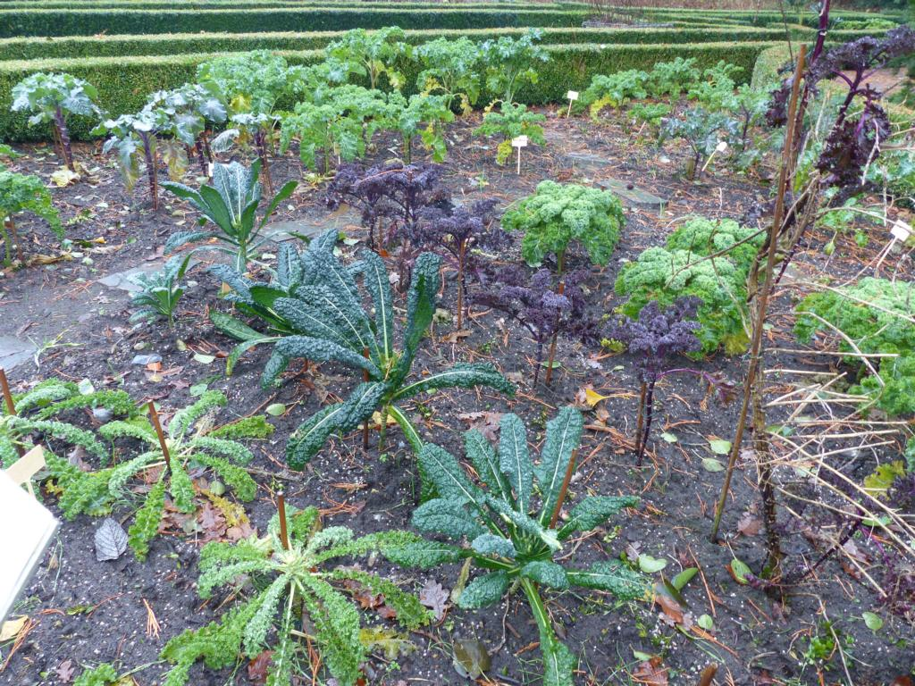 Botanical Garden University of Oldenburg (Germany)